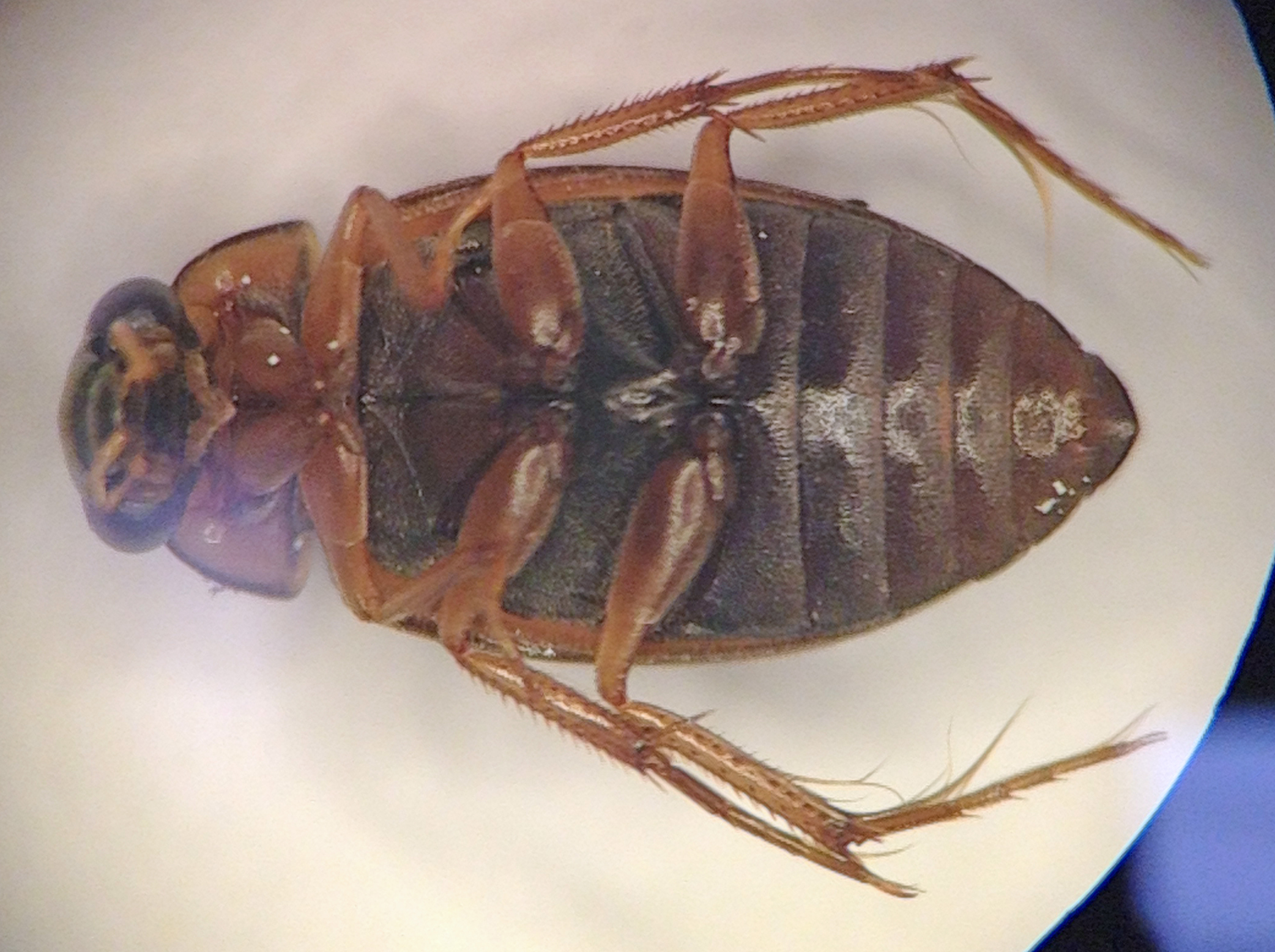 The ventral view of a dead adult Berosus infuscatus collected at Tyson Research Center, Missouri in July 2013.